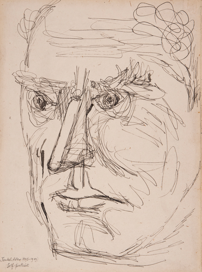 Self-portrait. Pen and ink. Inscribed by Ronald Searle. Ex. Collection: Ronald Searle. Out of copyright on 1 January 2020